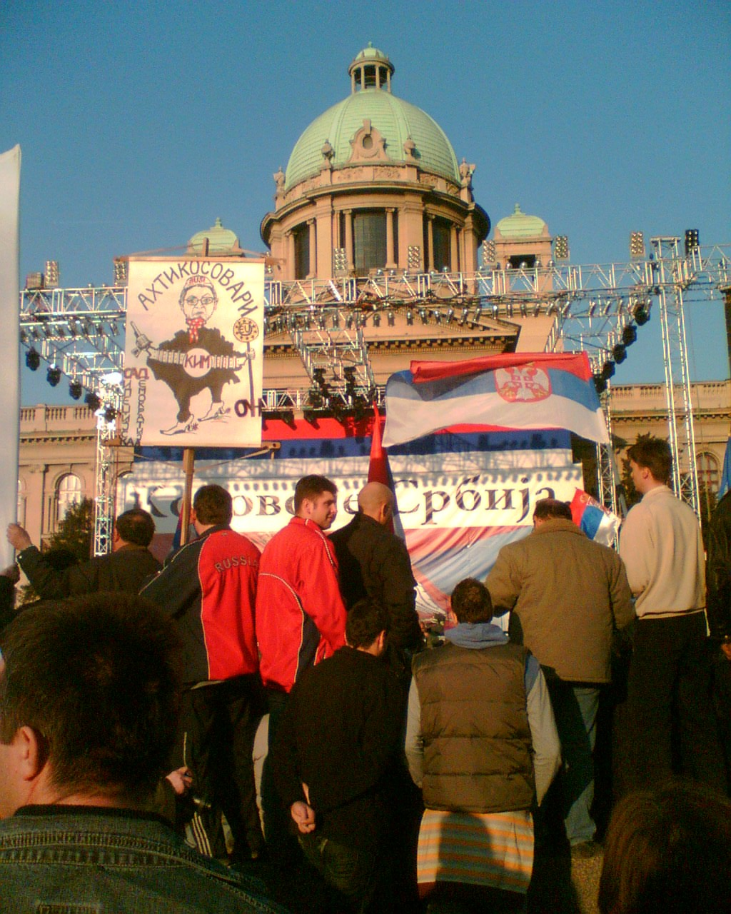 Demonstrators gathering before the government-organised protest meeting outside the old federal parliament building in Belgrade. This photo was taken on my Nokia phone.